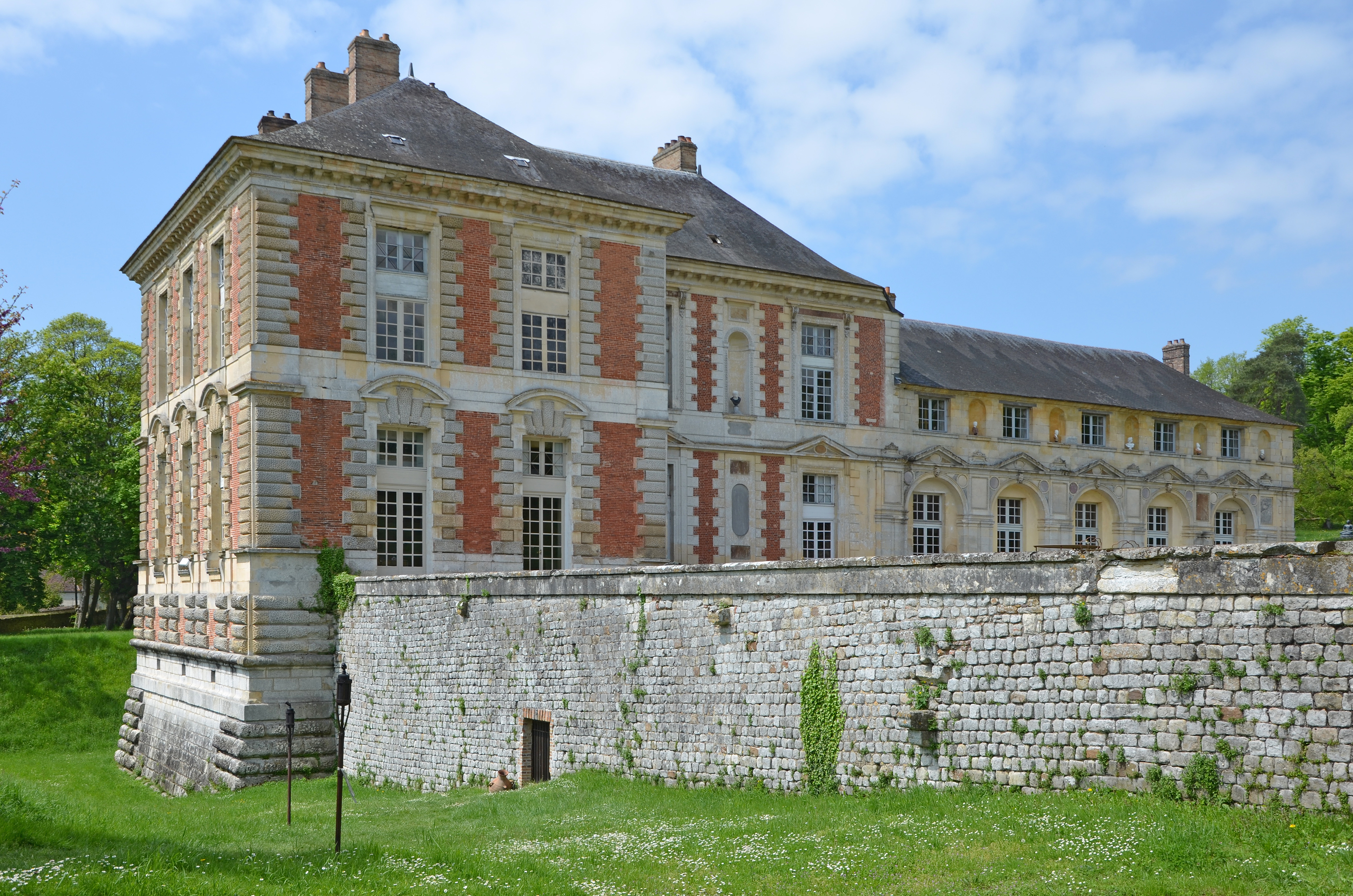 Castle of Vallery, Yonne, France.